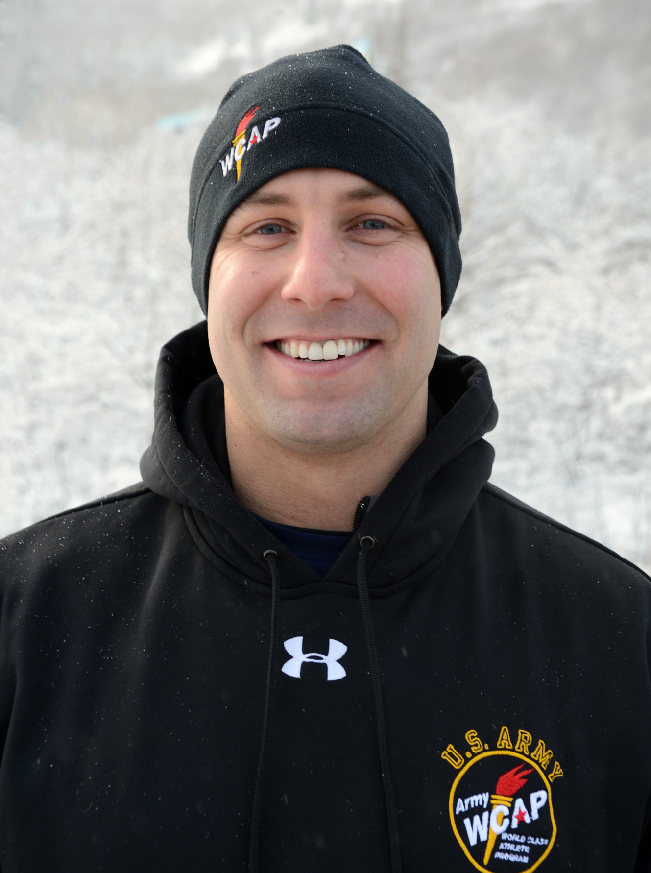 Sgt. Nick Cunningham of the U.S. Army World Class Athlete Program will drive the USA-2 bobsled in both the two-man and four-man events at the 2014 Olympic Winter Games in Sochi, Russia. U.S. Army photo by Tim Hipps, IMCOM G9 MWR Public Affairs